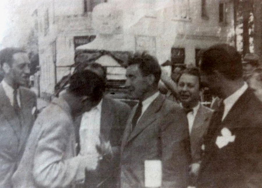 National Peasant's Party figure Gabriel Țepelea (middle) greeting foreign journalists outside Ardealul newspaper headquarters in Bucharest; also pictured is the newly unveiled bust of Iuliu Maniu, the party leader. Photograph was taken shortly after the King Michael's Coup, which allowed anti-fascist groups to organize in the open.